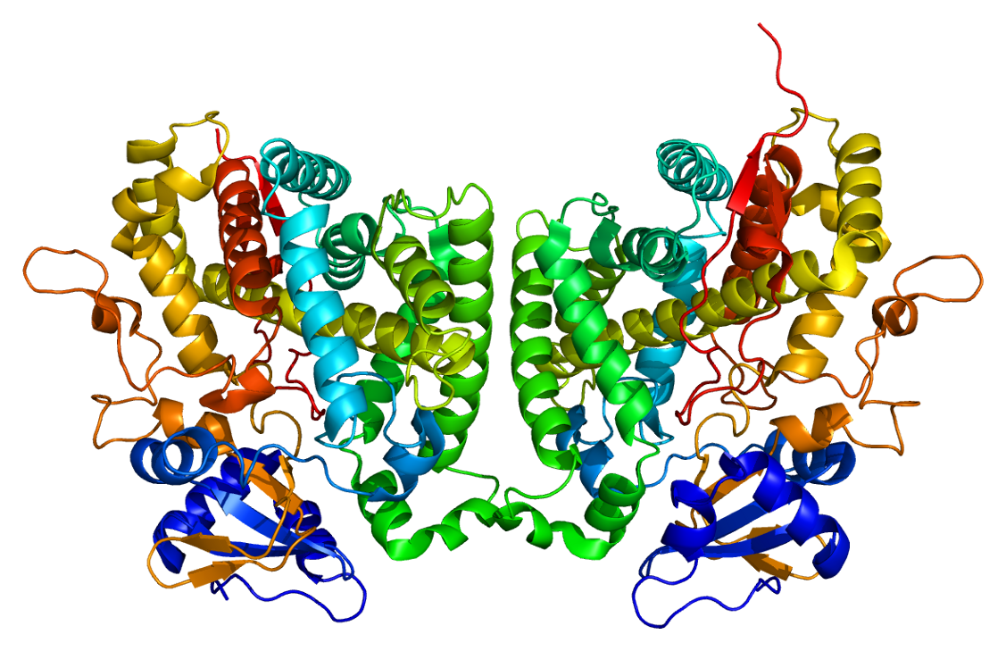 Structure of the CYP2R1 protein. Based on PyMOL rendering of PDB 2ojd.